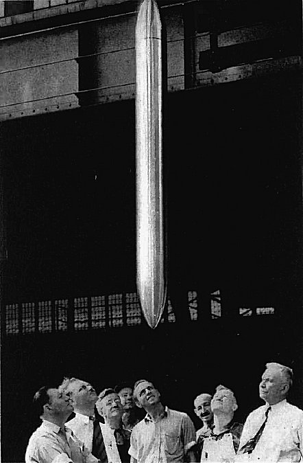 picture of 1939 Time Capsule with engineers looking on